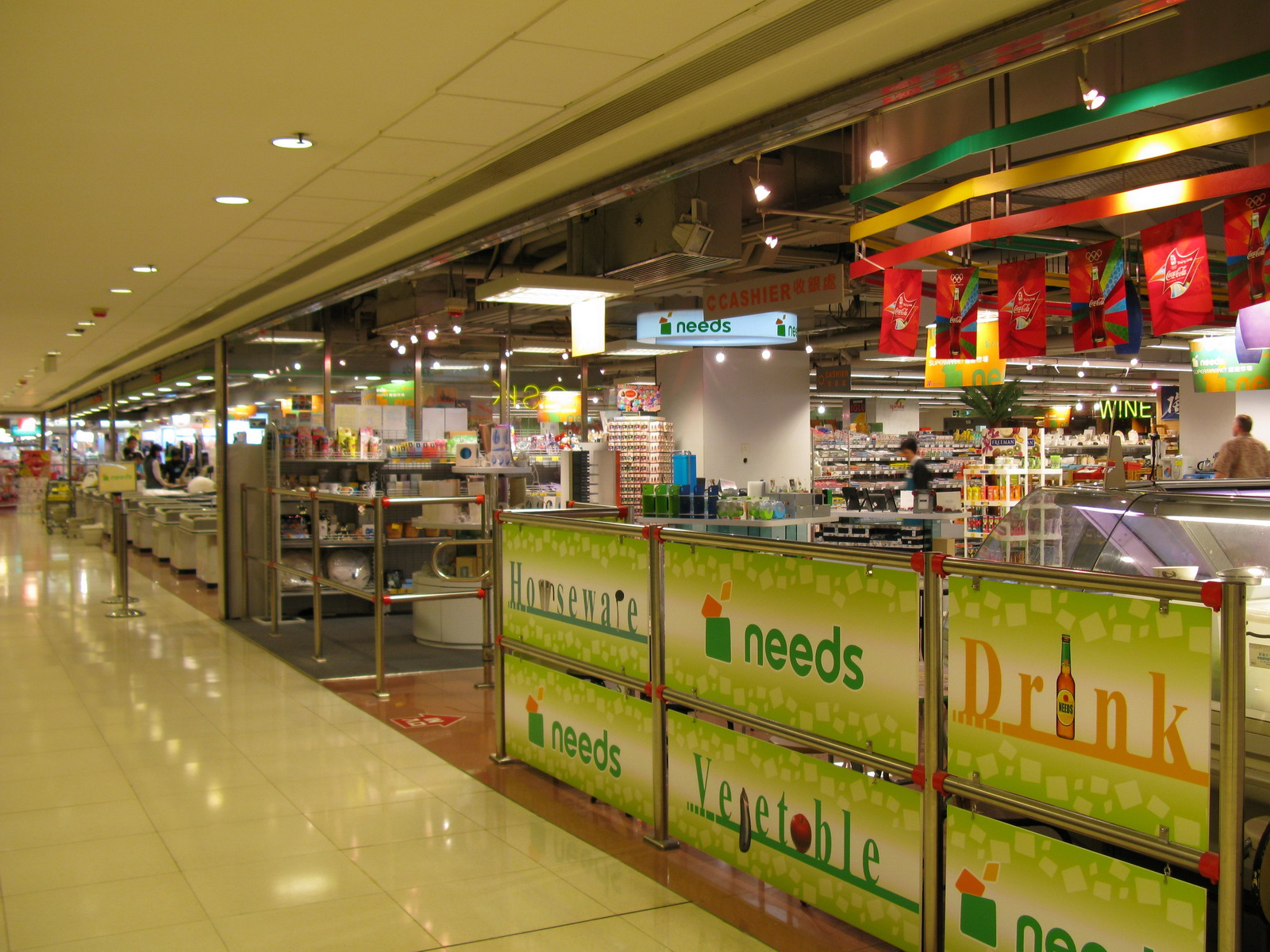 New World Centre Shopping Mall - "needs"